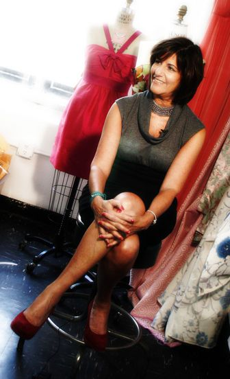 Kay Unger in her design room.